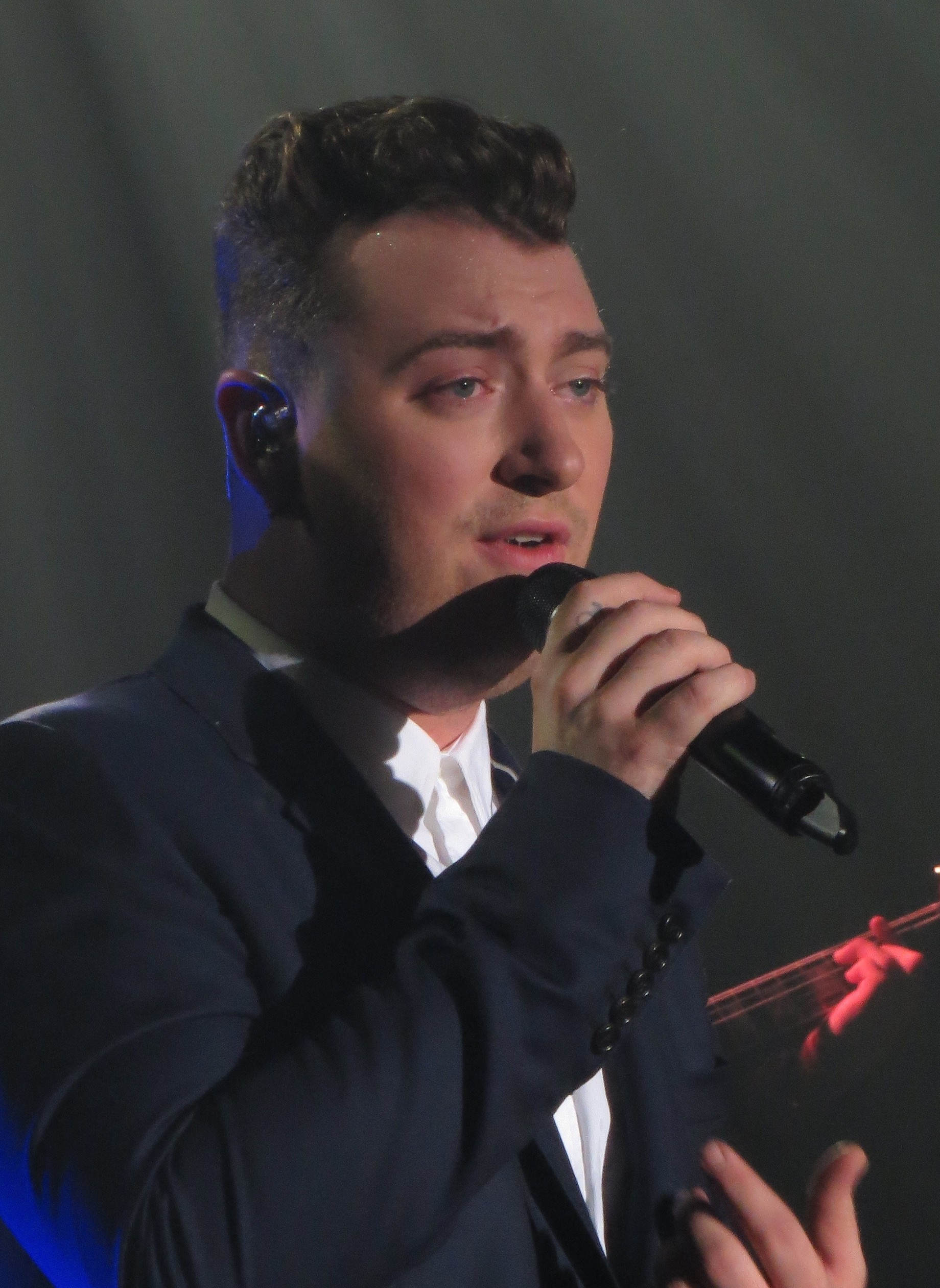 Sam Smith Oct 23, 2014 at O2 ABC, Glasgow, UK.